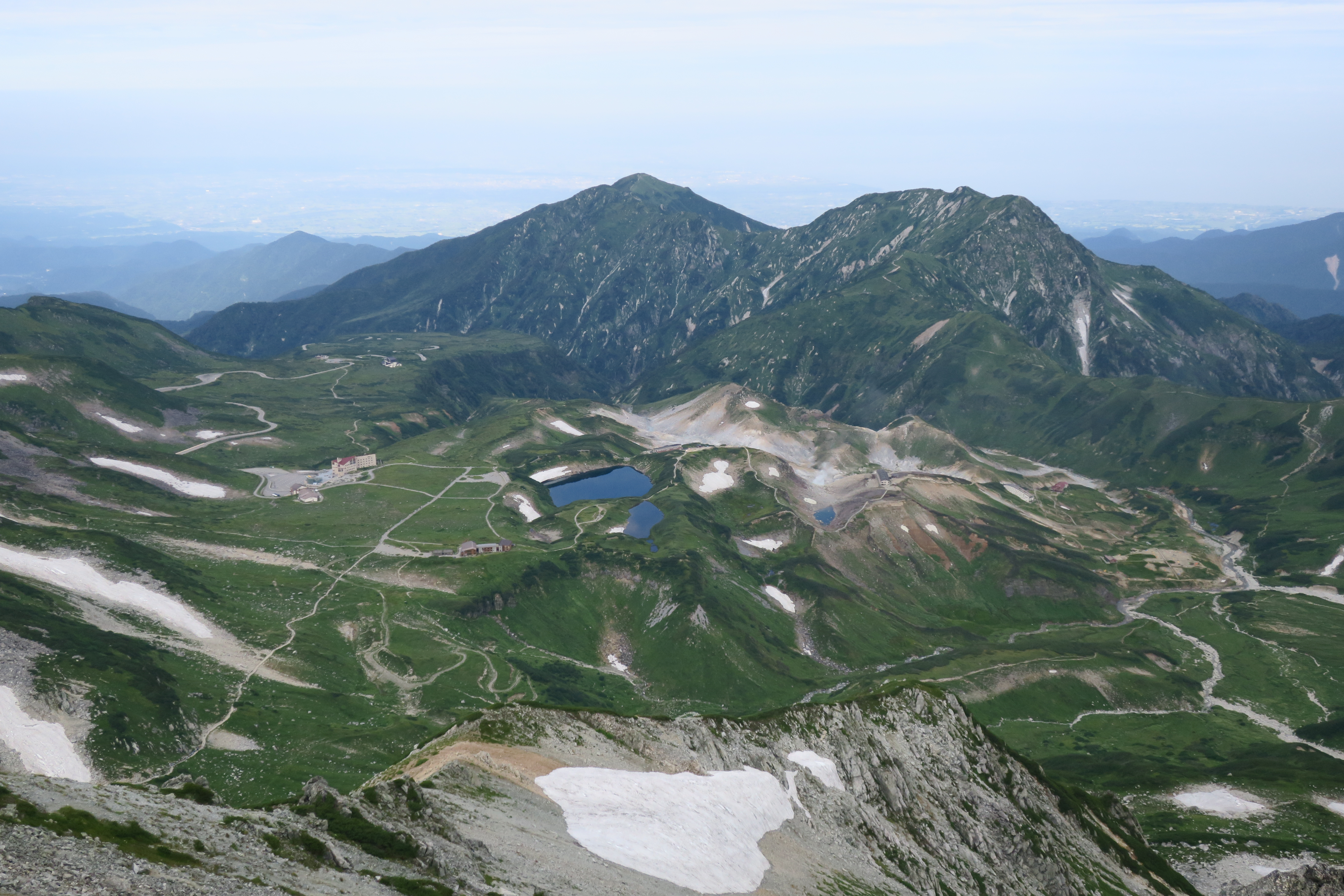 View of Morodo in Tateyama, Toyama Prefecture, Japan